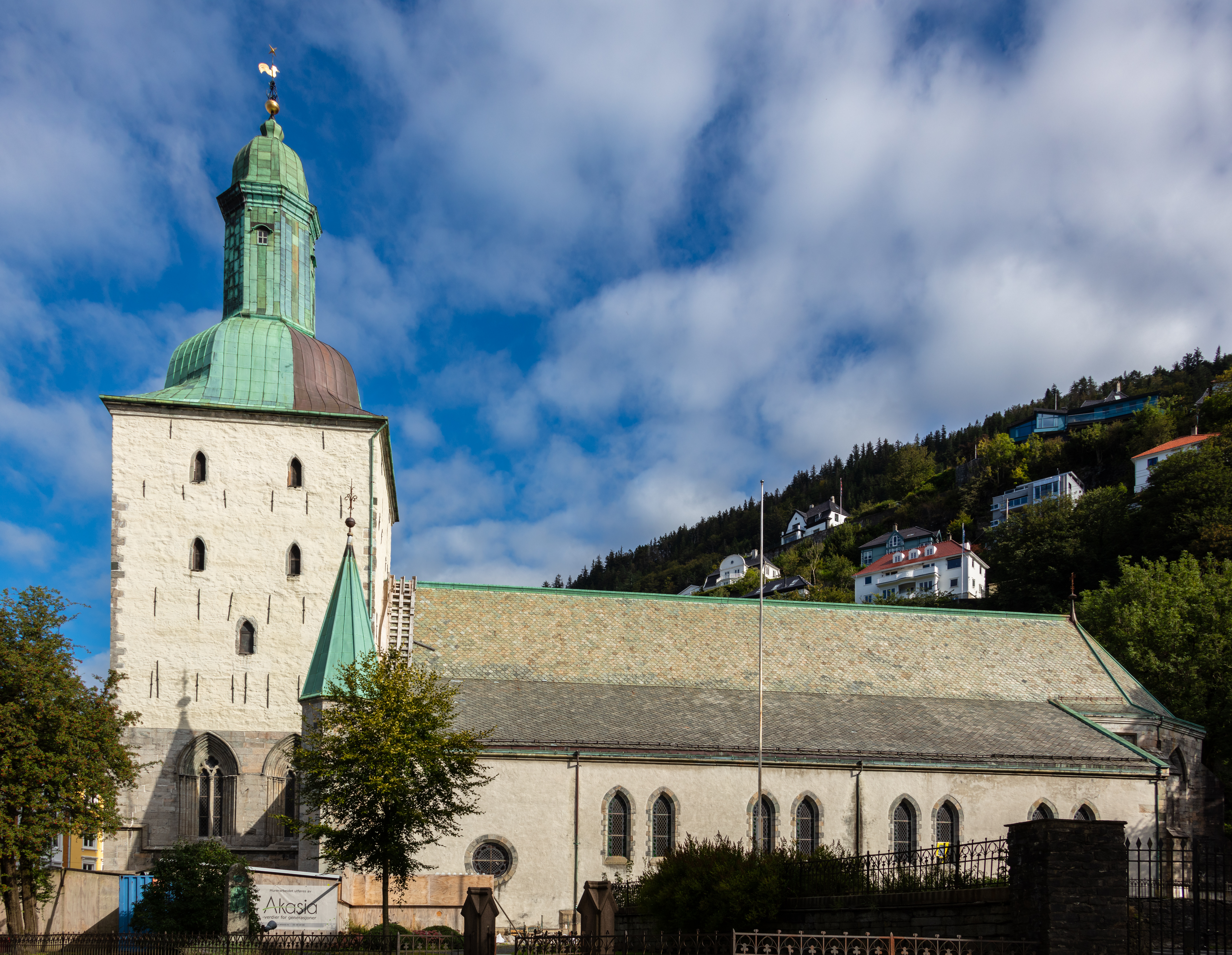 Cathedral, Bergen, Norway